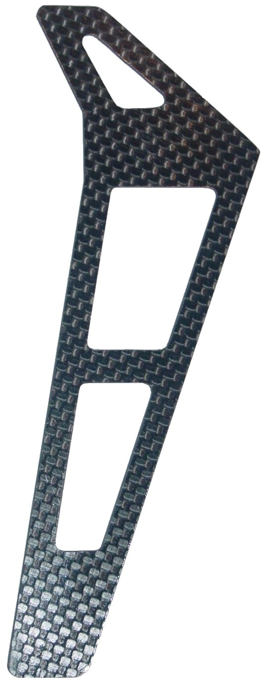 Carbon fiber plastic composite (CFK) tailfin for a radio-controlled helicopter model.